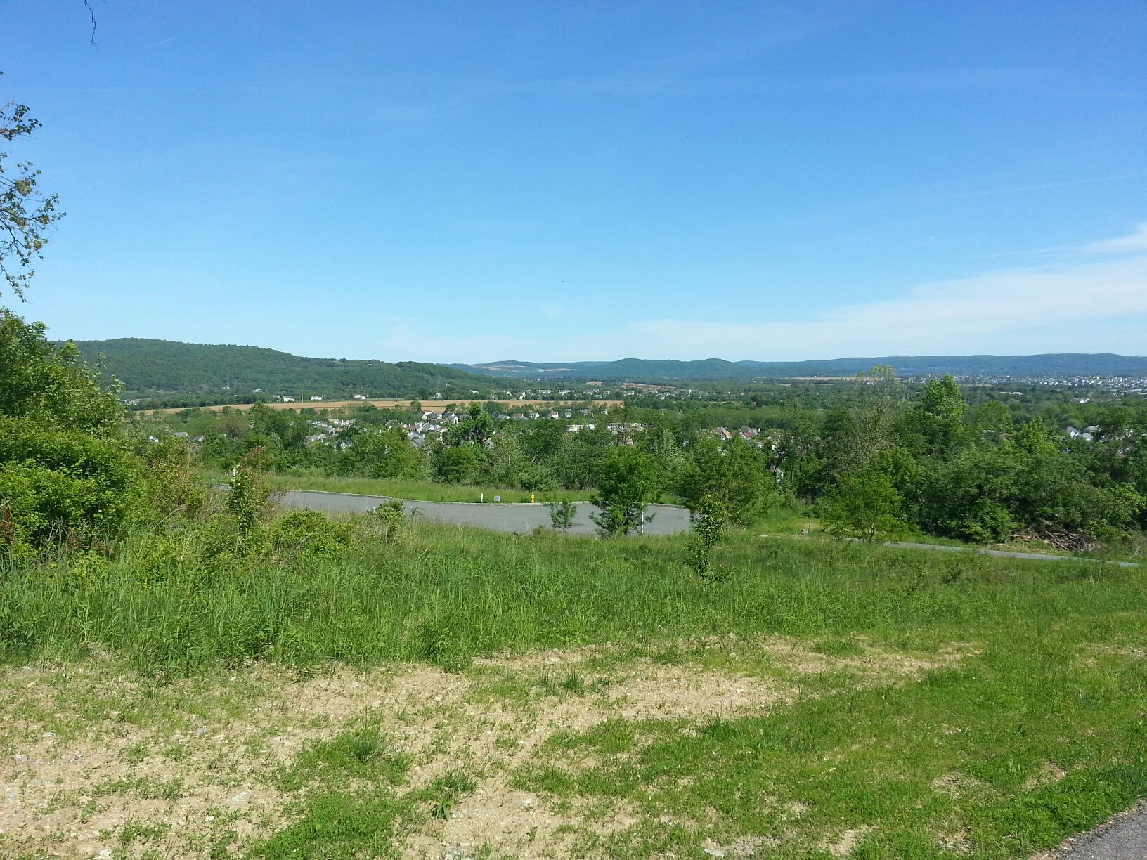 View of Lopatcong, and the neighborhood Country Hills, from the base of Marble Mountain, and from the border of the marble Mountain Natural Area. Taken 5/17/13